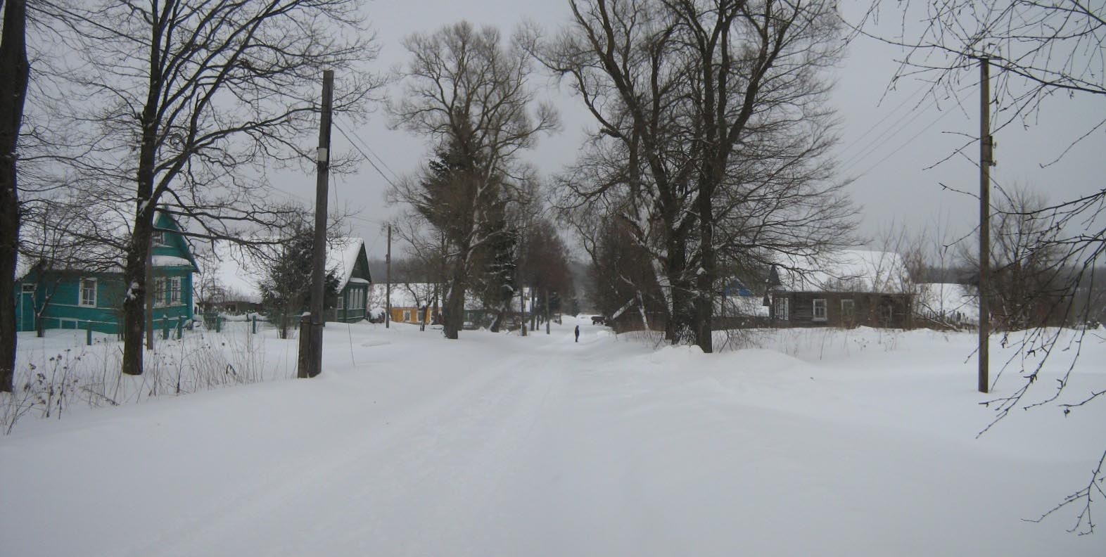 Losytino village, Starorussky district, Novgorod oblast, Russia